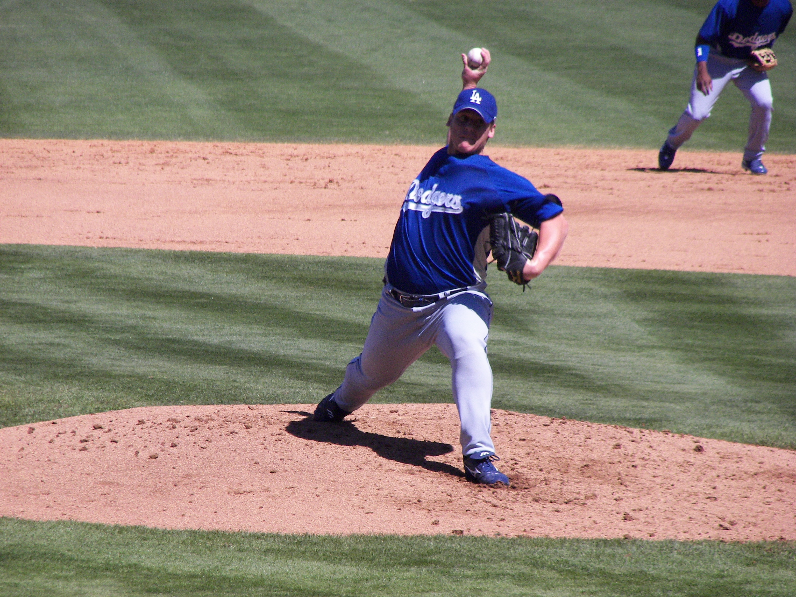 Los Angeles Dodgers pitcher Chad Billingsley pitching during a Dodgers/Boston Red Sox spring training game at City of Palms Park in Fort Myers, Florida.